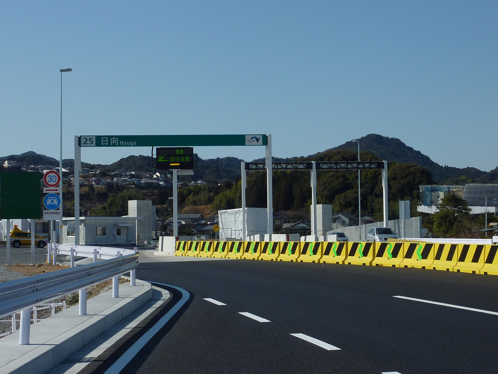 The Hyuga Interchange of Higashi-Kyushu Expressway in Hyuga City, Miyazaki Prefecture, Japan.